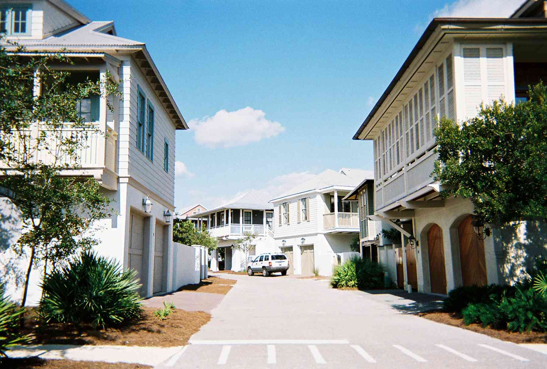 A pervious concrete street in Rosemary Beach, Florida. Concrete was 10 years old at the time of the picture.